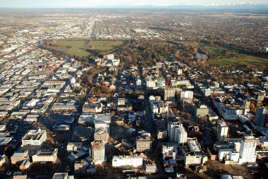 Helicopter flight over Christchurch in July 2012.